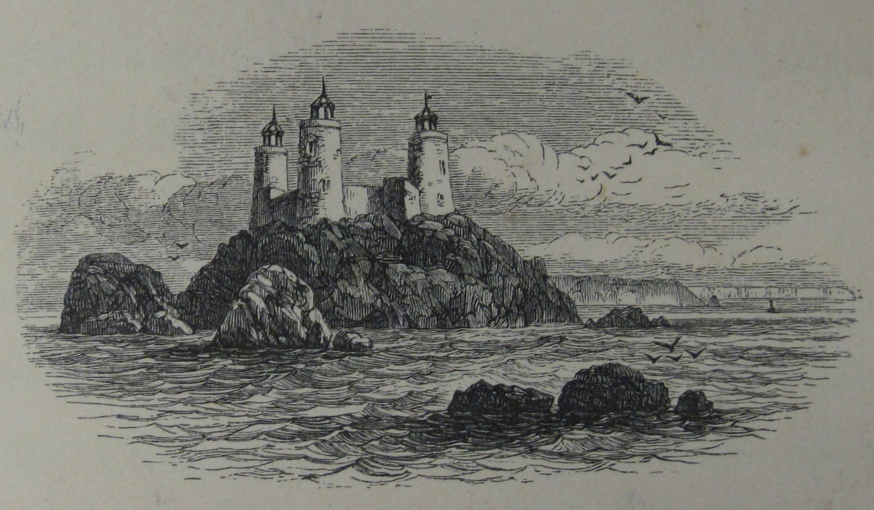 Illustration from The Channel Islands, 1862, David Thomas Ansted & Robert Gordon Latham - "The Casquets rocks and light house"